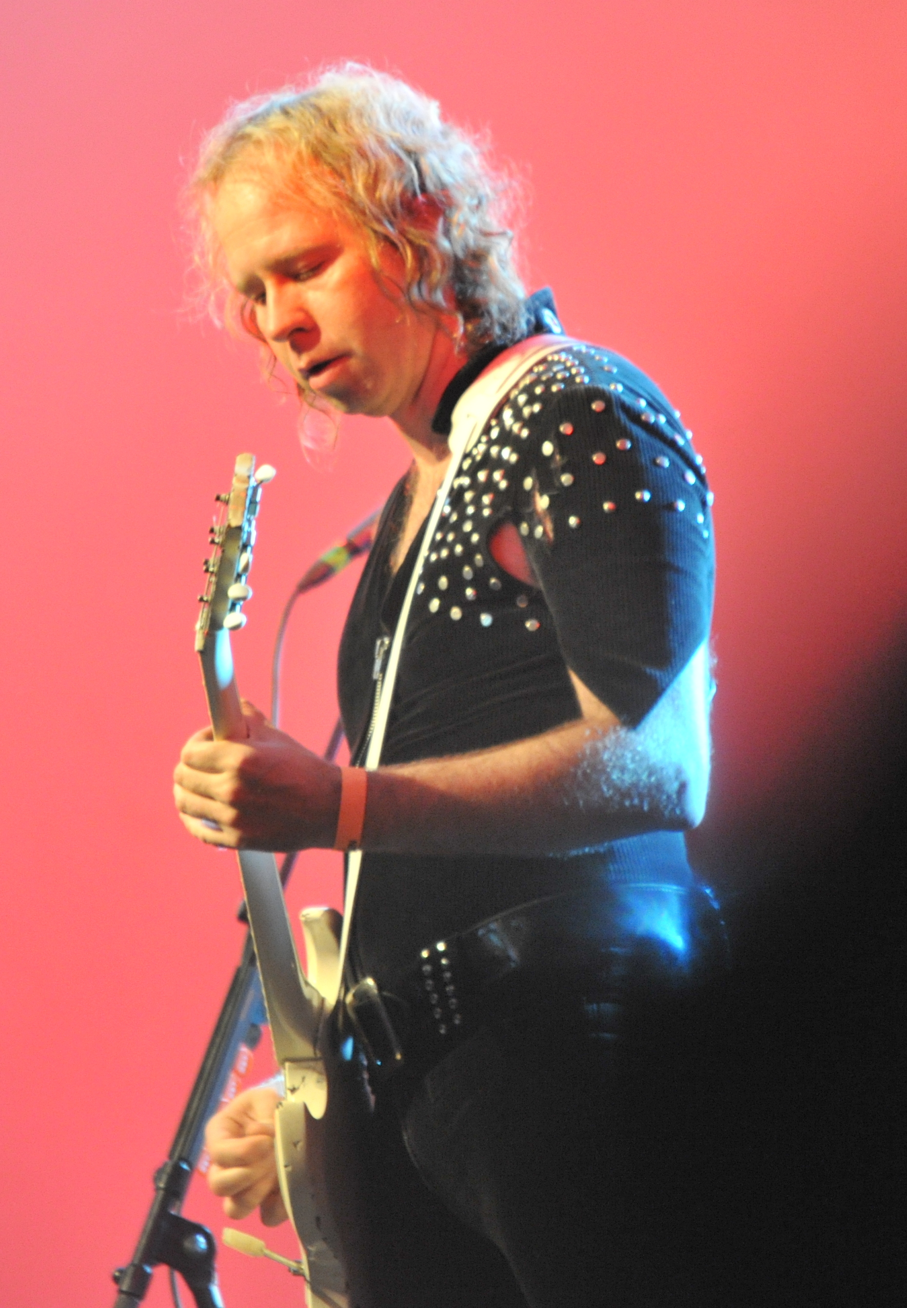 Swedish guitarist Mikael Jepson of The Ark.